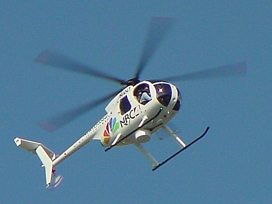 WCMH's current helicopter